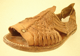 Huarache, left leather handcrafted huarache. Typical. I took the picture. April 2007.